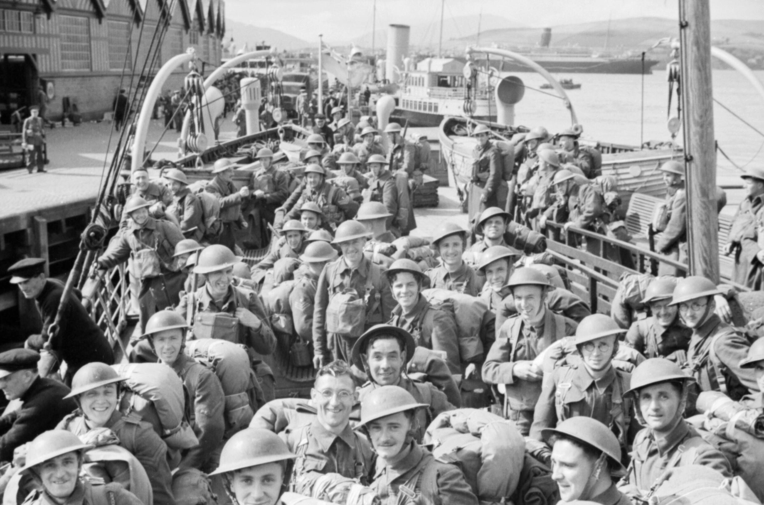 British troops returning from Norway at Greenock on board a transport boat.